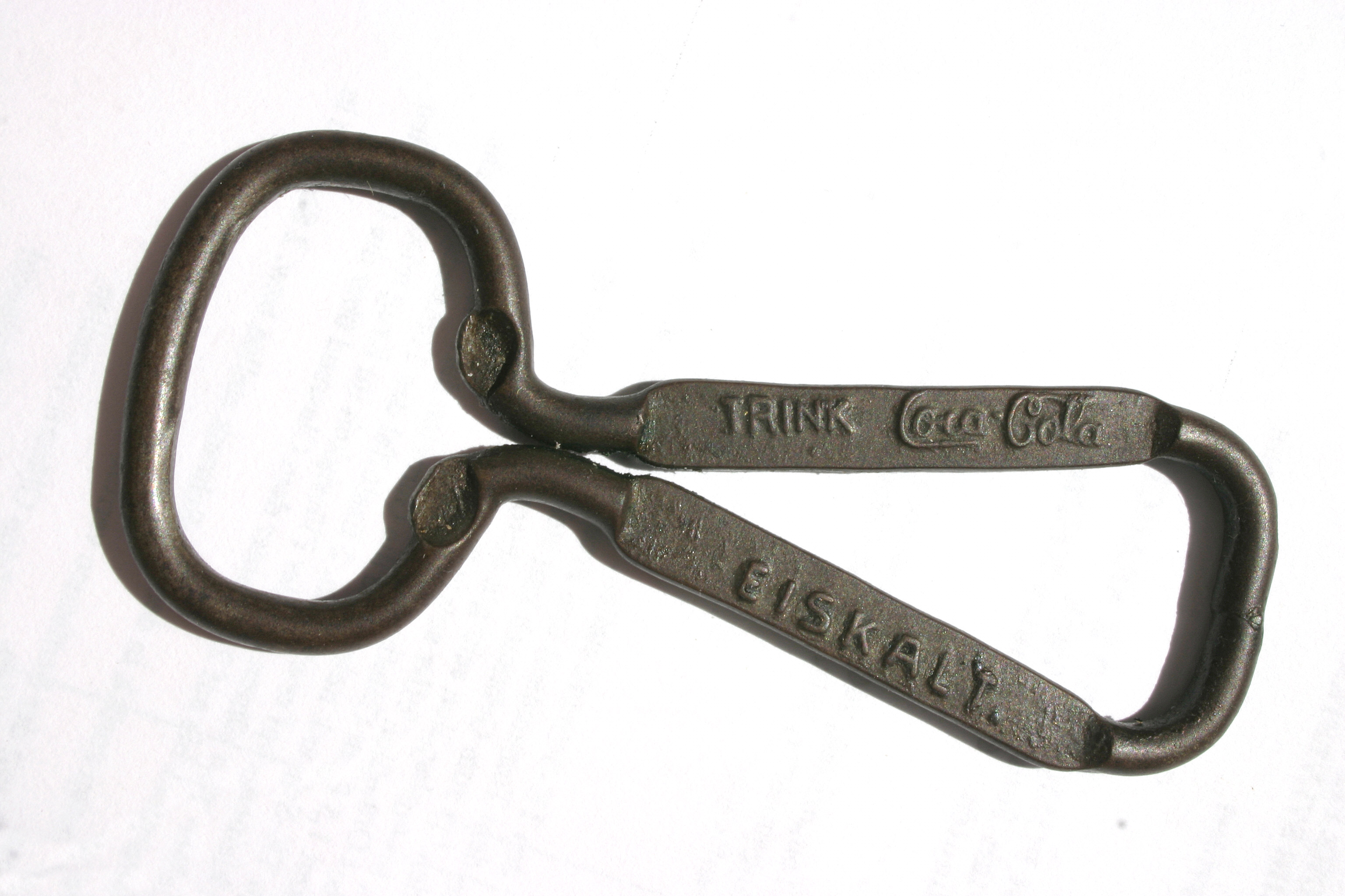 Coca-Cola - Old bottle opener